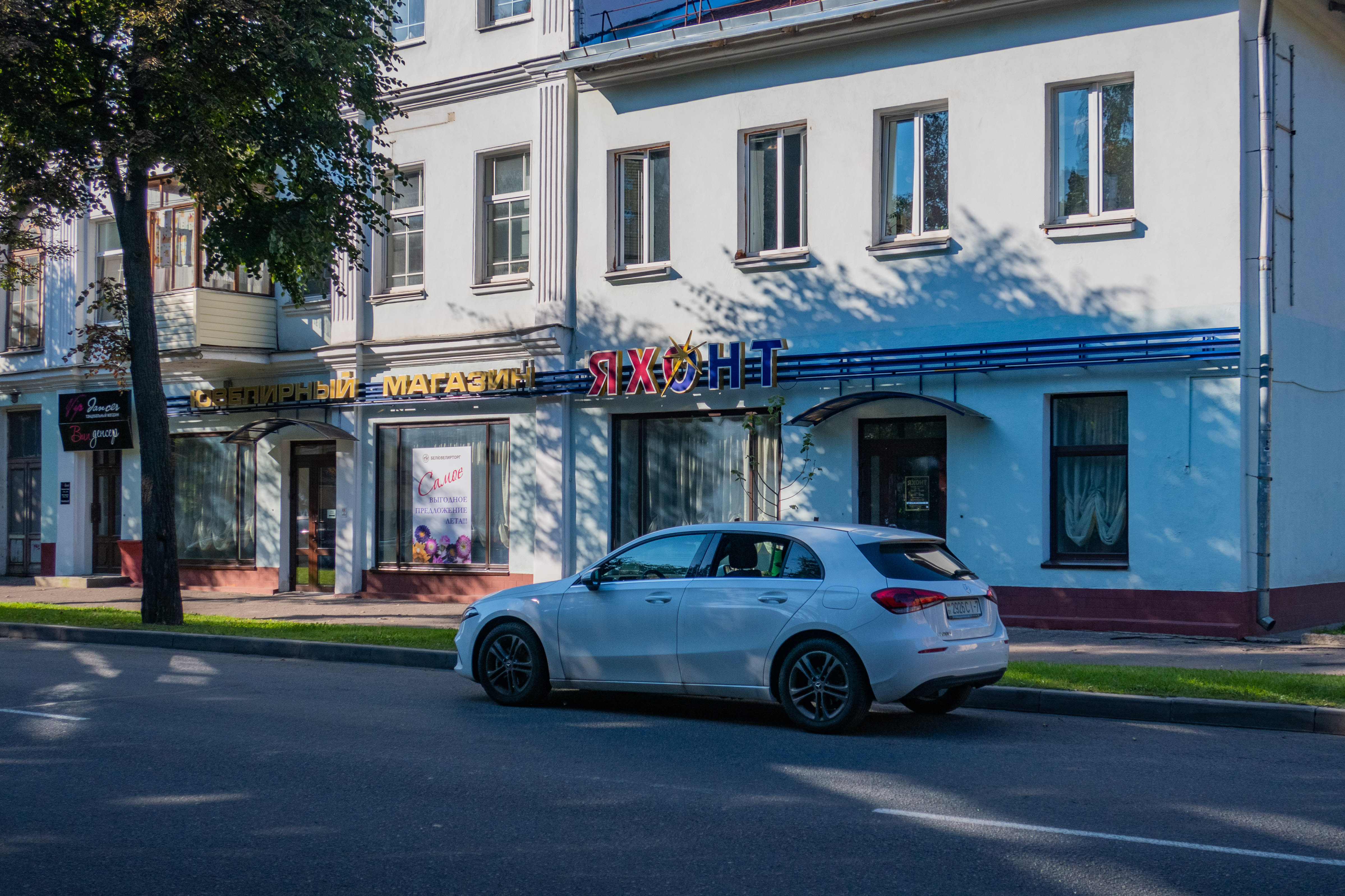 Yahont, the most often robbed jewellery store in Minsk. Kisialiova street, Minsk, Belarus